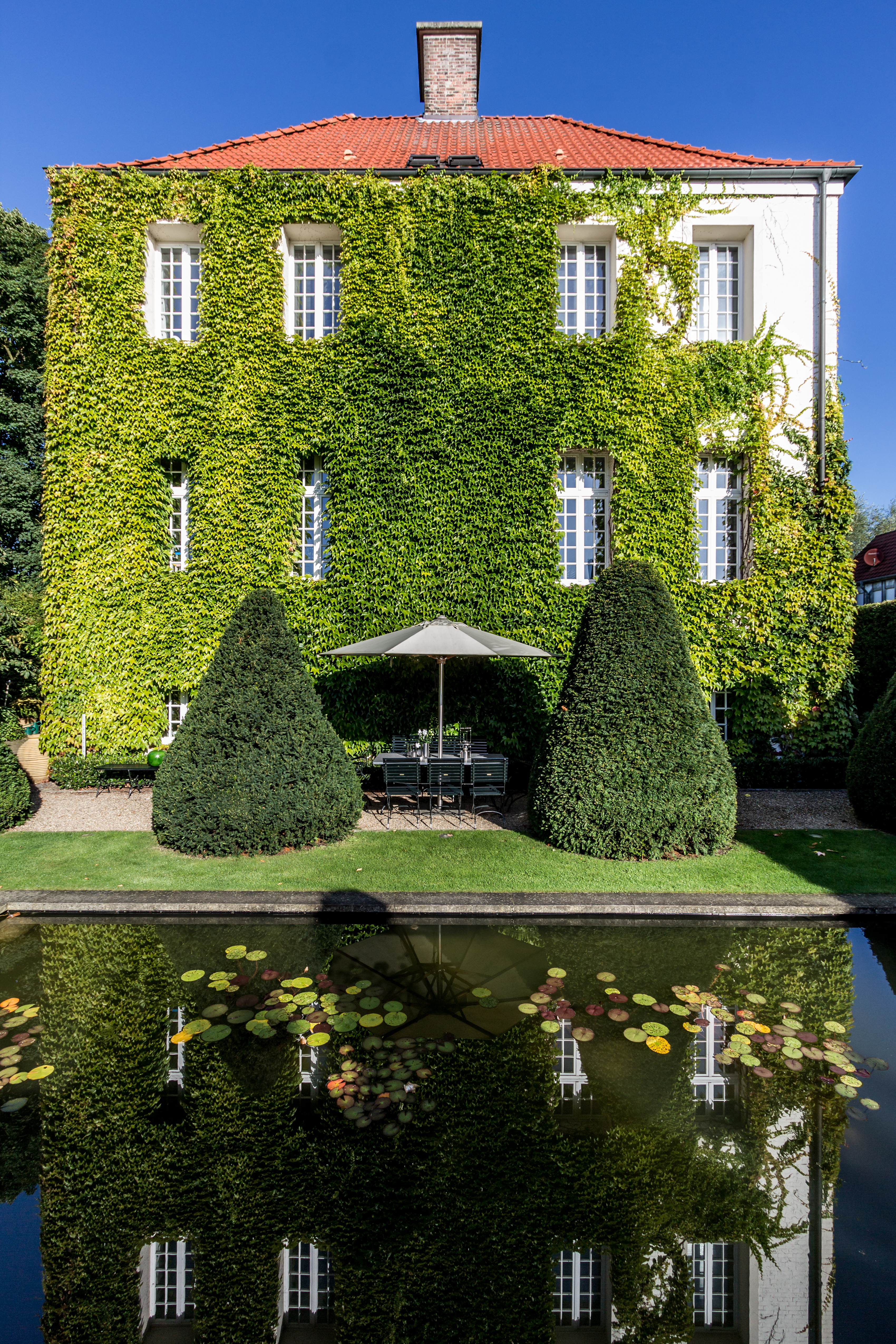 South front of the Osthoff Manor in Dülmen, North Rhine-Westphalia, Germany; the oldest house in Dülmen and former manor This image shows a heritage building in Germany, located in the North Rhine-Westphalian city Dülmen (no. 26). This is a photograph of an archaeological site.